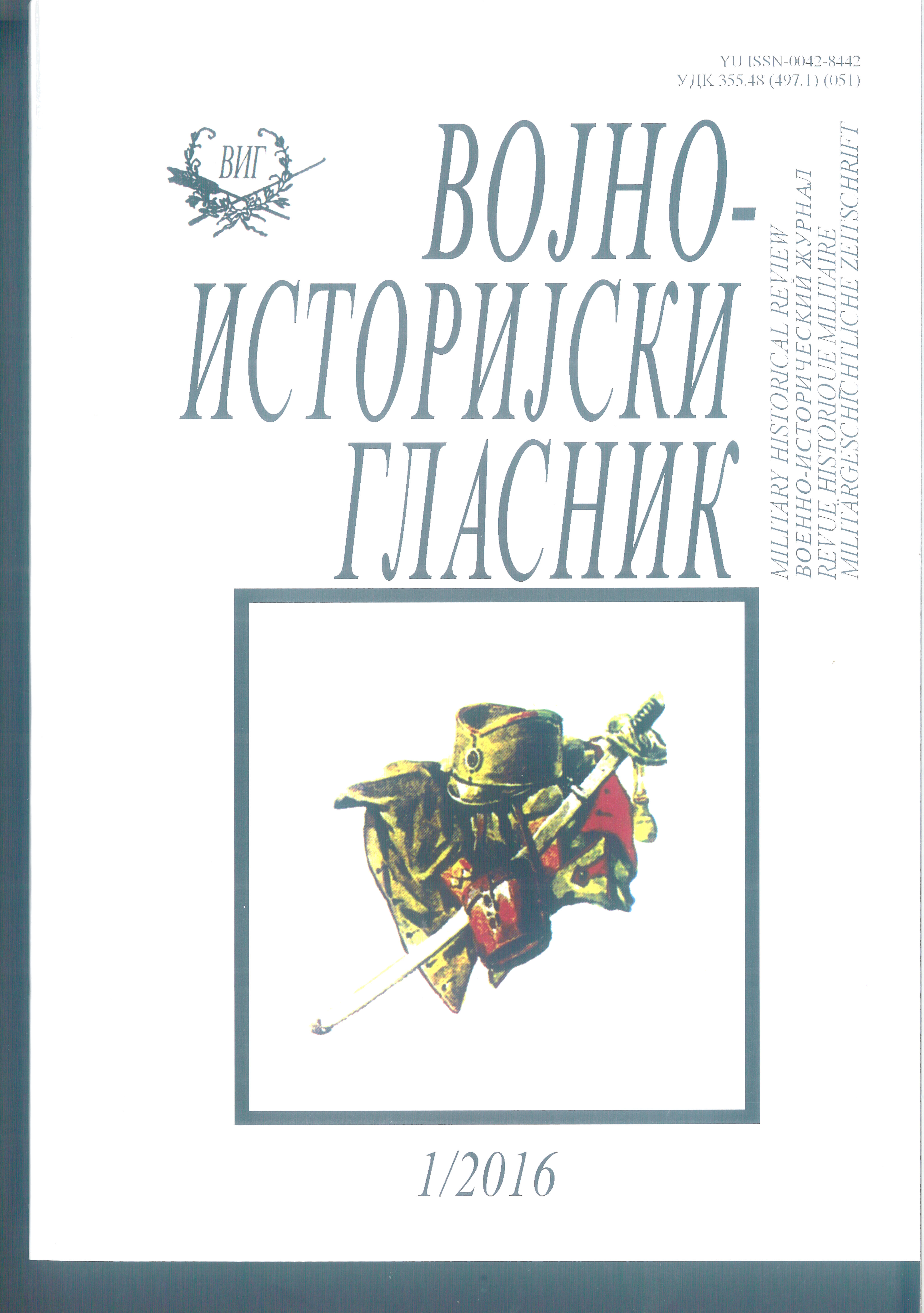 Cover of journal Vojnoistorijski glasnik, 2016